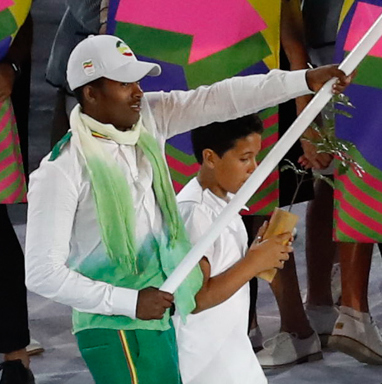 Rio de Janeiro - Cerimônia de abertura dos Jogos Olímpicos Rio 2016 no Estádio do Maracanã. (Fernando Frazão/Agência Brasil)